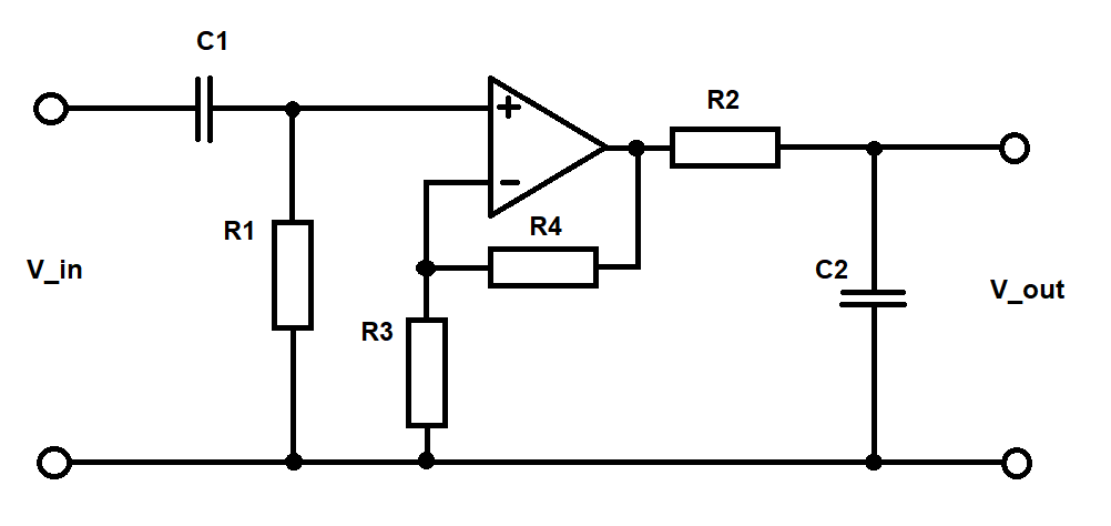 Active band pass filter